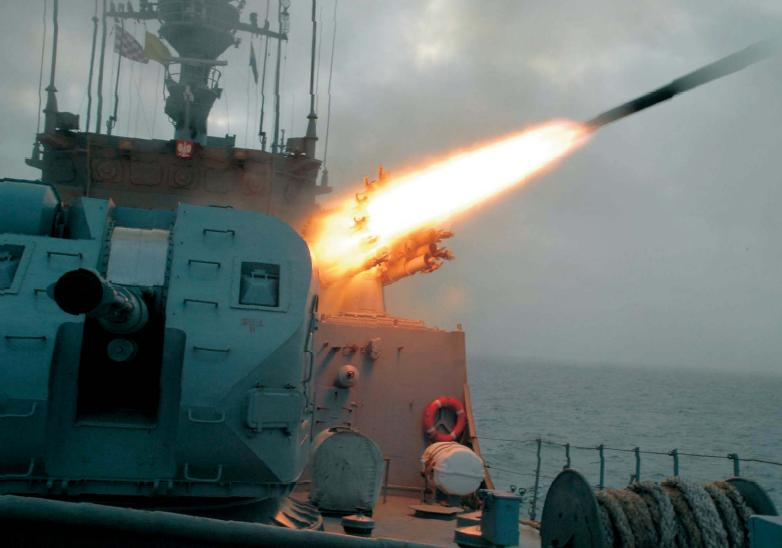 RBU rocket depth charges fired from ORP Kaszub